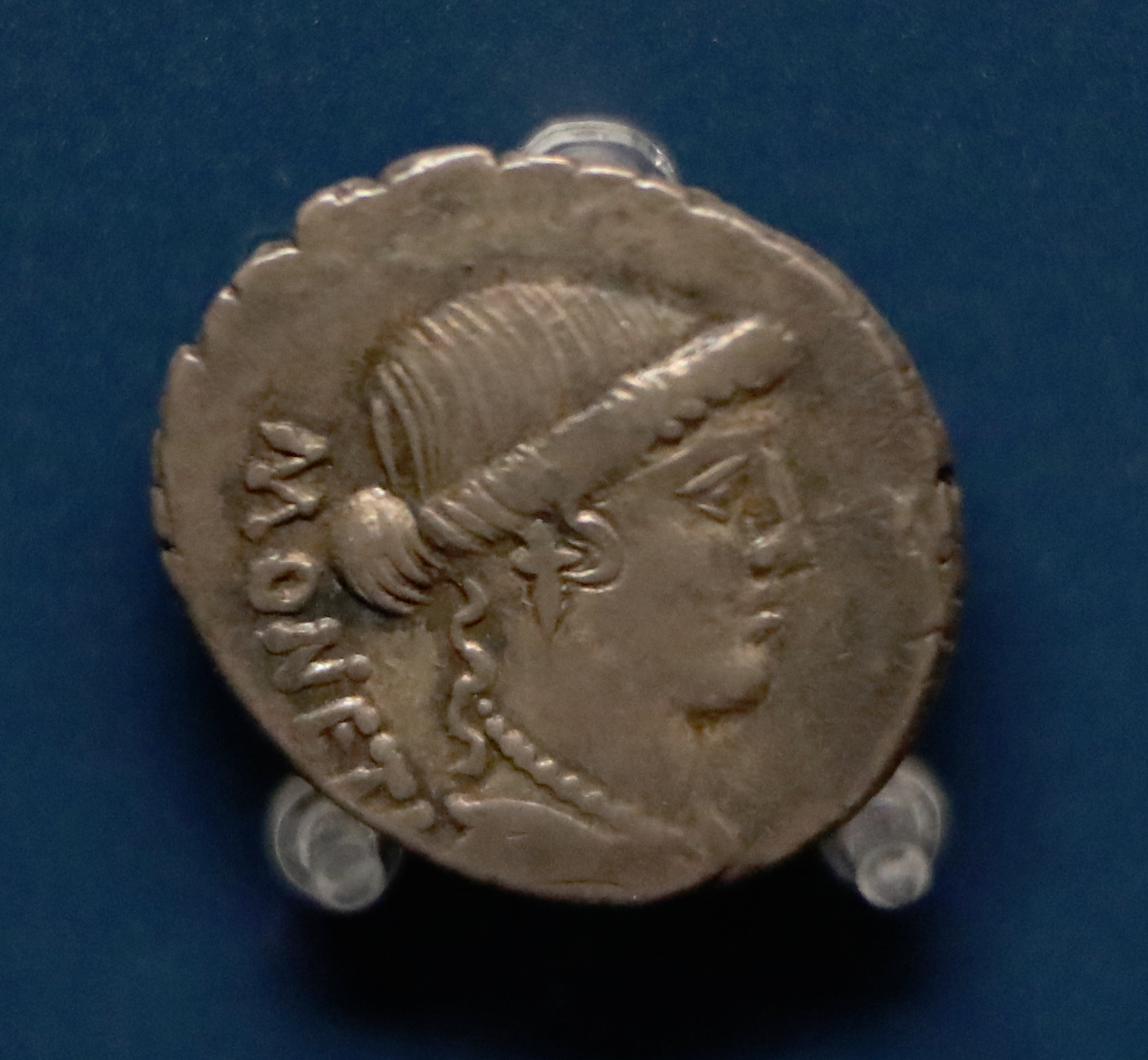 Photo of a denarius from 46BC featuring a bust of Juno Moneta the roman goddess of the mint